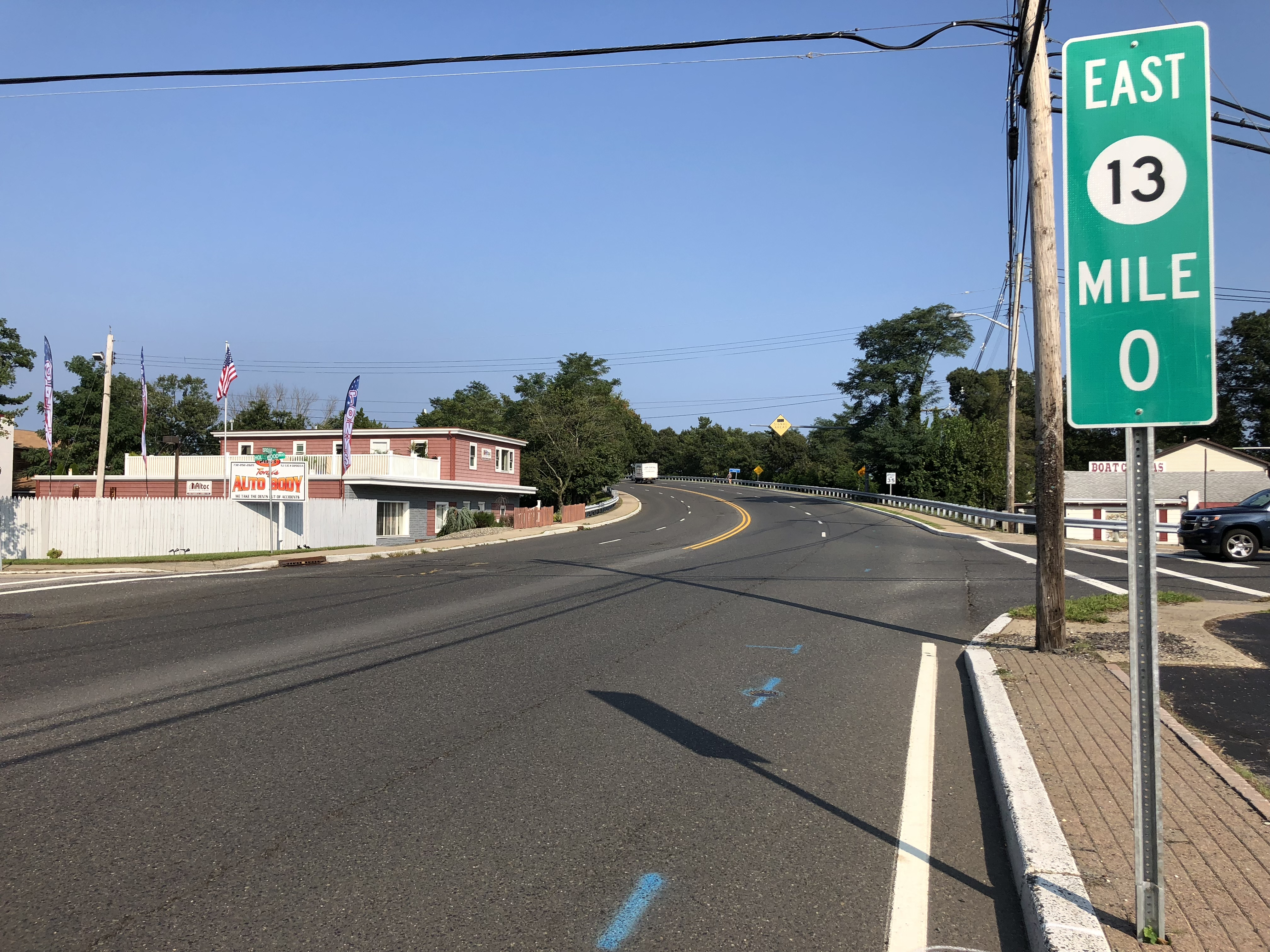 View east along New Jersey State Route 13 and Ocean County Route 632 (Bridge Avenue) just west of Rue Lido and Hollywood Boulevard in Point Pleasant, Ocean County, New Jersey